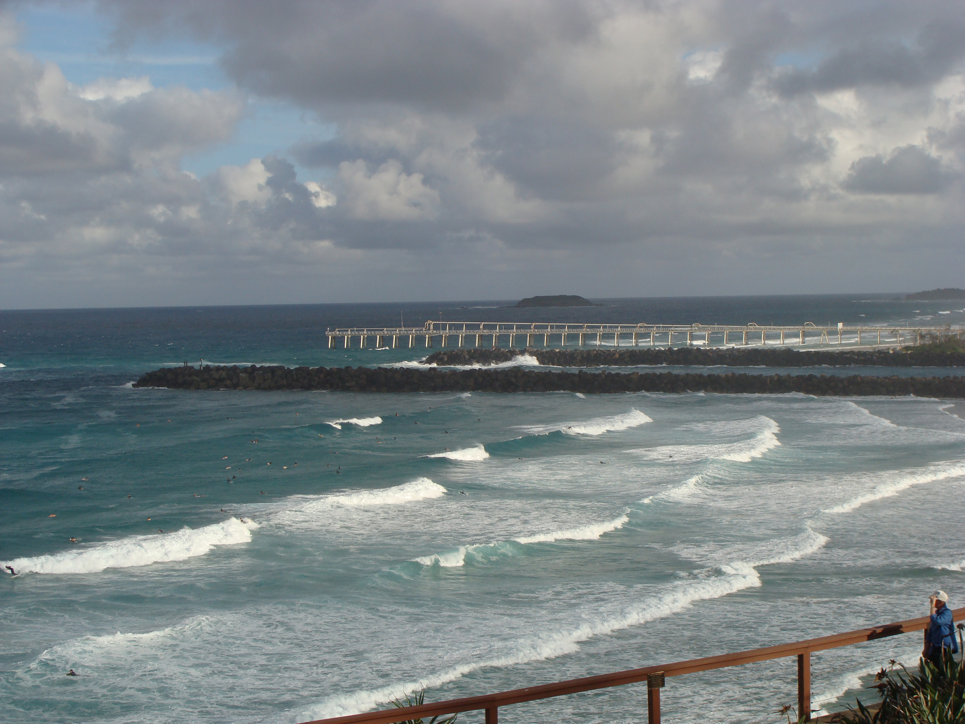 Cook Isl and Fingal Head